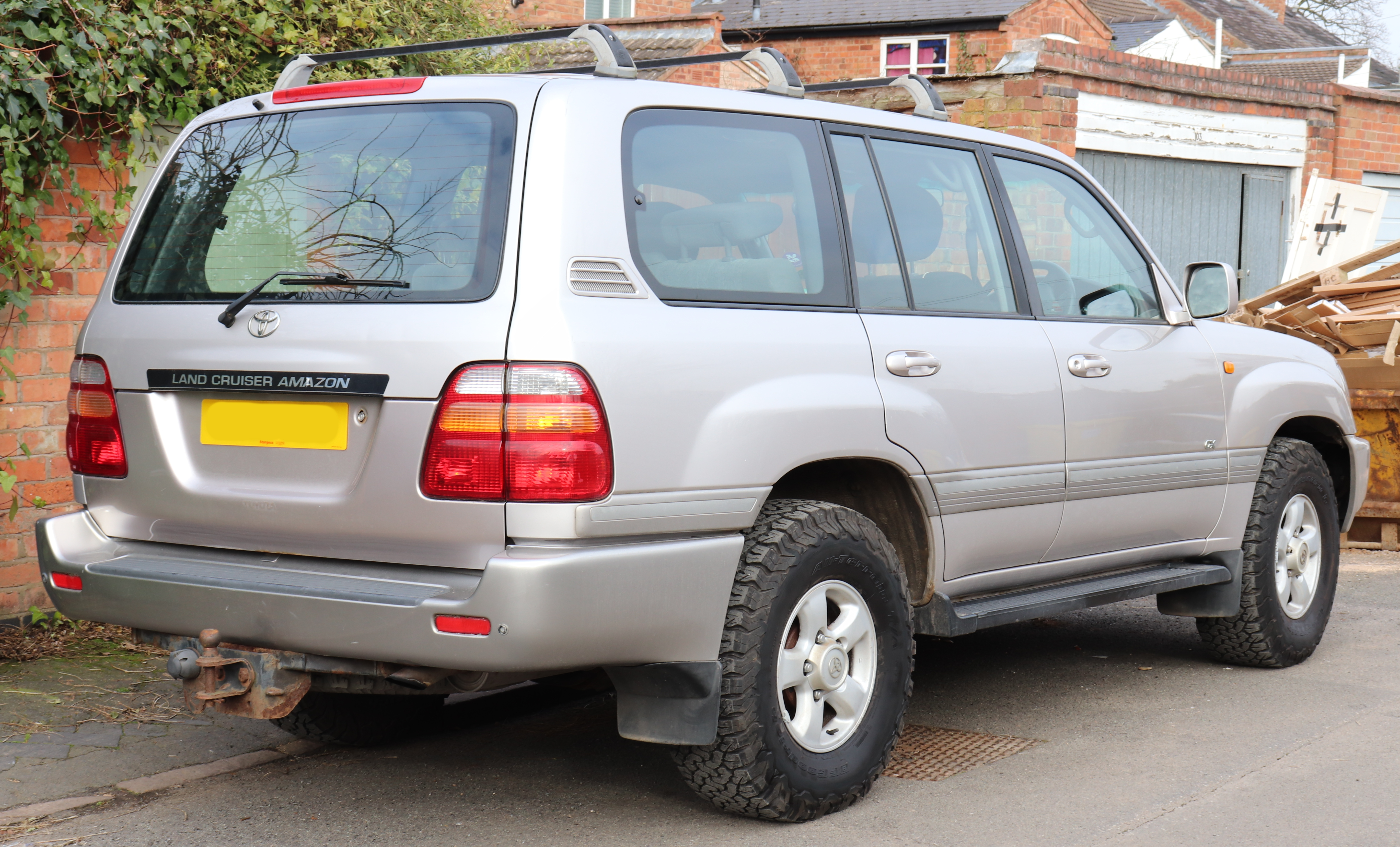 2001 Toyota Land Cruiser Amazon GX TDA 4.2 facelift Rear Taken in Leamington Spa